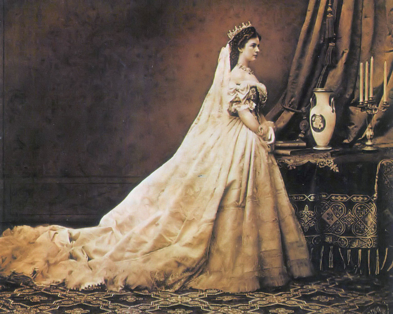 Empress Elisabeth of Austria in Hungarian Coronation Dress